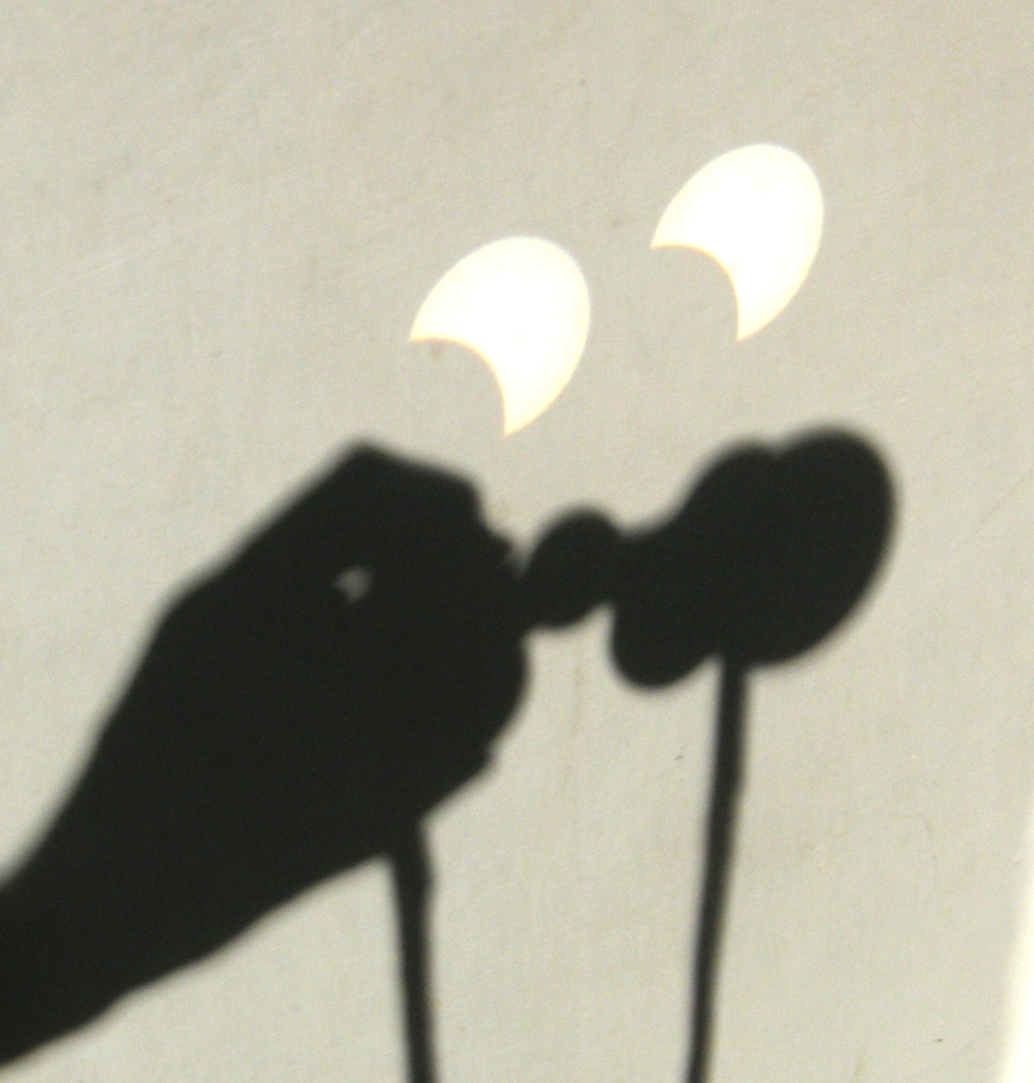 An image of the solar eclipse of August 1, 2008, projected through 8x50 binoculars